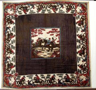 Handckerschief done at Erasme de Gònima workshop conserved at Museu de l’Estampació de Premià de Mar